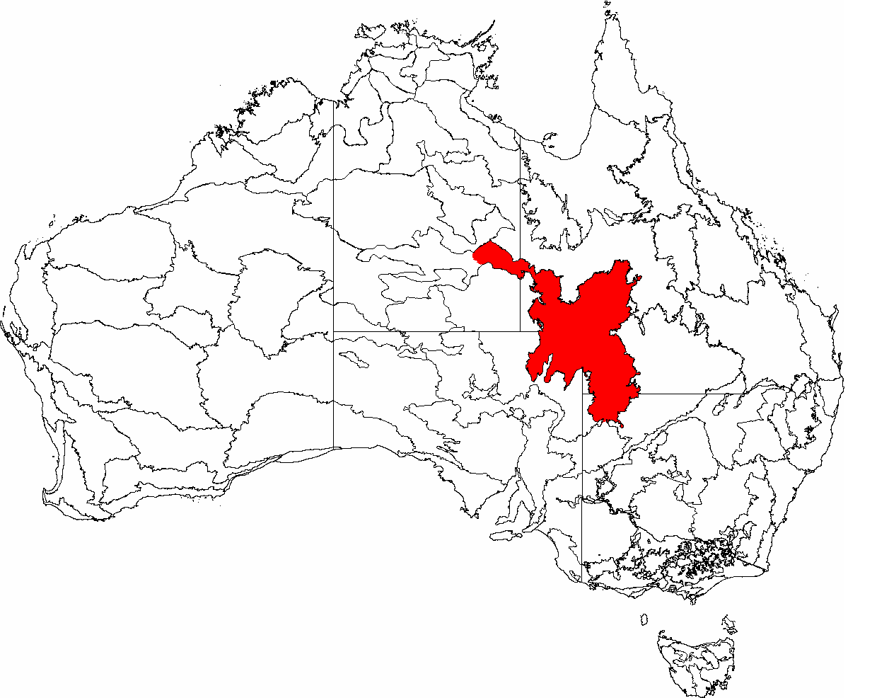 This is a map of the Interim Biogeographic Regionalisation of Australia (IBRA), with state boundaries overlaid. The Channel Country region is shown in red.